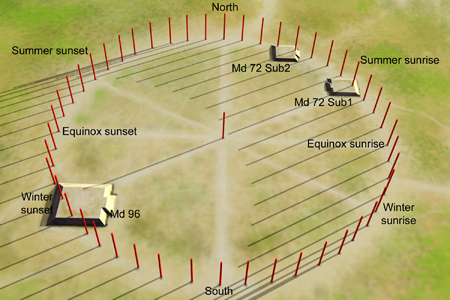 A diagram of solstice and equinox sunset and sunrise positions at the Mound 72 Woodhenge at the Cahokia Mounds site near Collinsville, Illinois, USA.